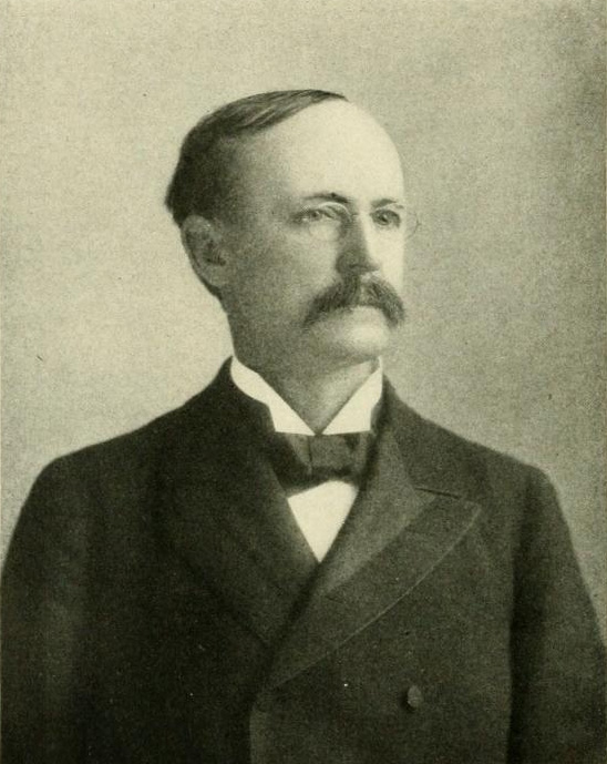 Seantor John M. Thurston